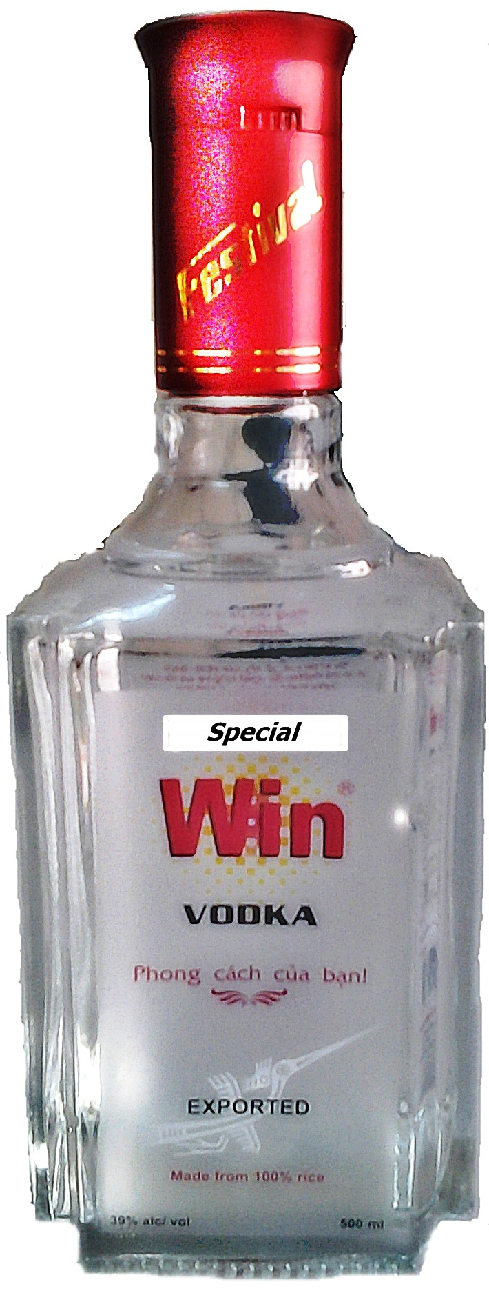 Vodka Made in VietNam